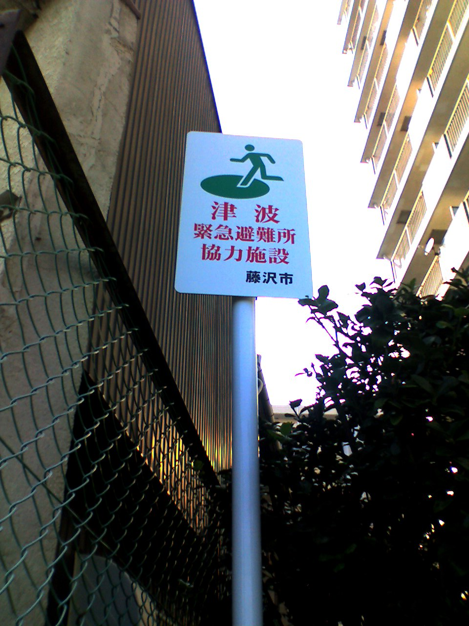 Tsunami emergency refuge place sign in Japan